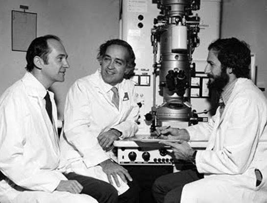 National Institutes of Health photo of the three men who discovered hepatitis A virus: Robert Purcell (left), Albert Kapikian (center), and Stephen Feinstone (right) sitting around an electron microscope.